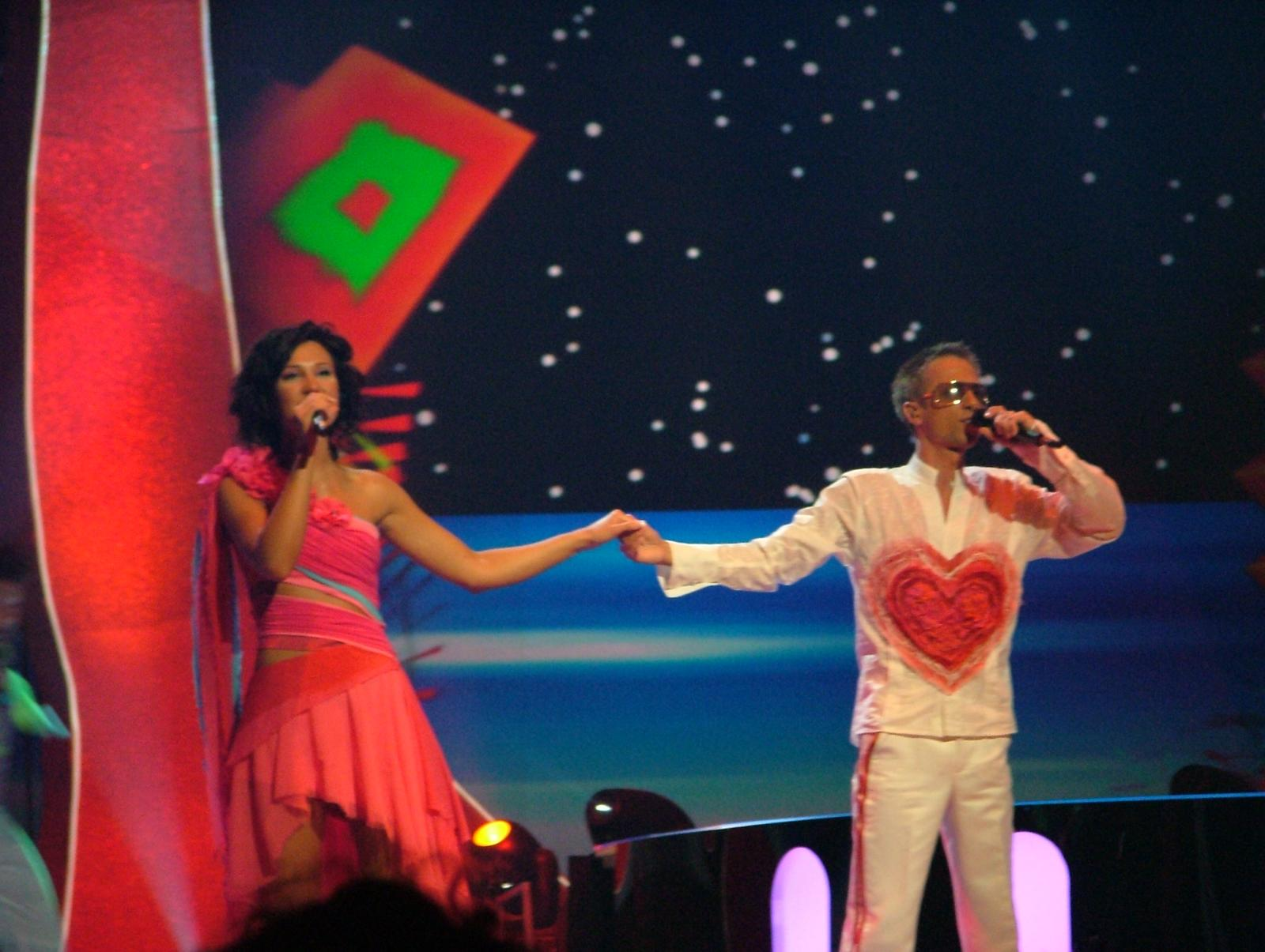 Linas and Simona performing at the rehearsals of the Eurovision Song Contest 2004 semi-final, representing Lithuania.